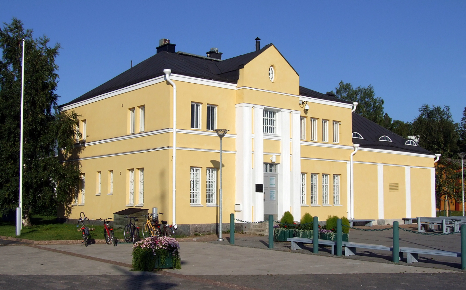 The Gemstone Gallery in Kemi, Finland. The build is an old customs house. It was designed by architect Walter Thomé and completed in 1912.